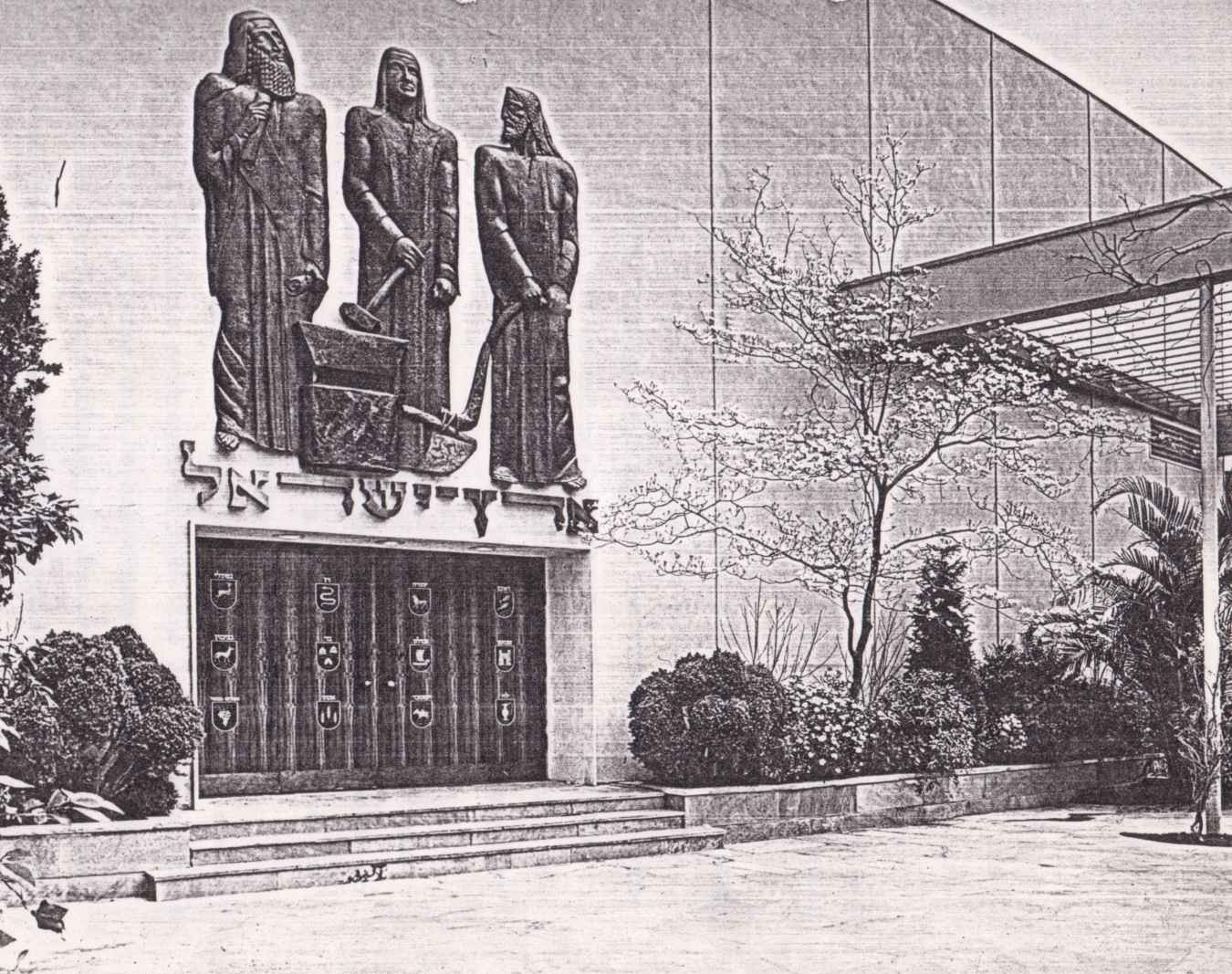 "The Scholar, The Laborer, and The Toiler of the Soil" copper repoussé relief sculpture by Maurice Ascalon, adorned the façade of the 1939 New York World's Fair's Jewish Palestine Pavilion. Today, Maurice Ascalon's sculpture is among the collection of the Spertus Museum in Chicago.